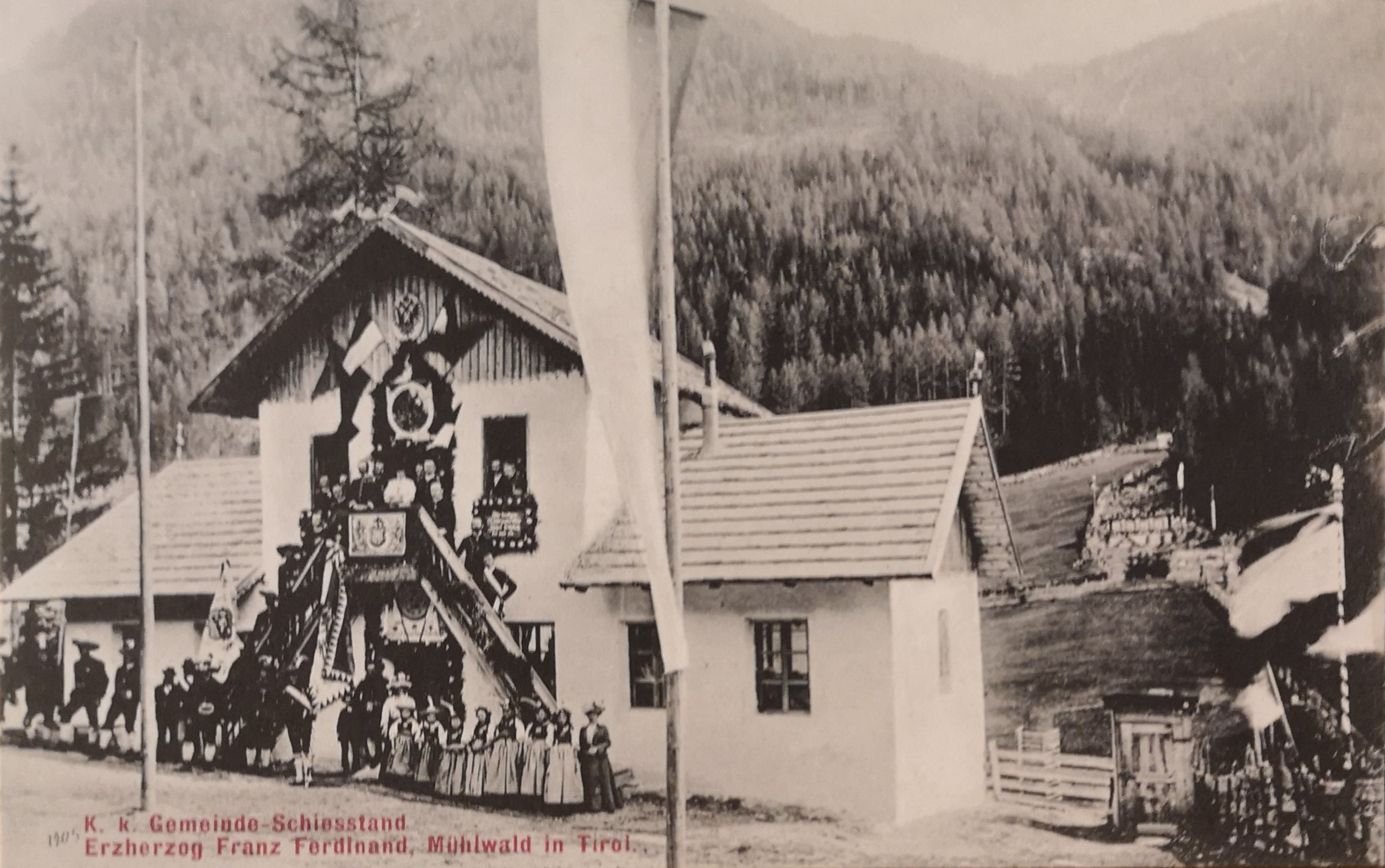 Shooting Range in Mühlwald, South Tyrol, in 1905 in the occasion of the visit of Archduke Franz Ferdinand of Austria